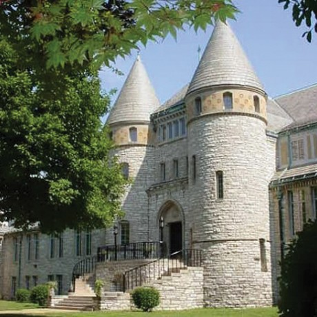 Villa Duchesne and Oak Hill School in Frontenac, Missouri.